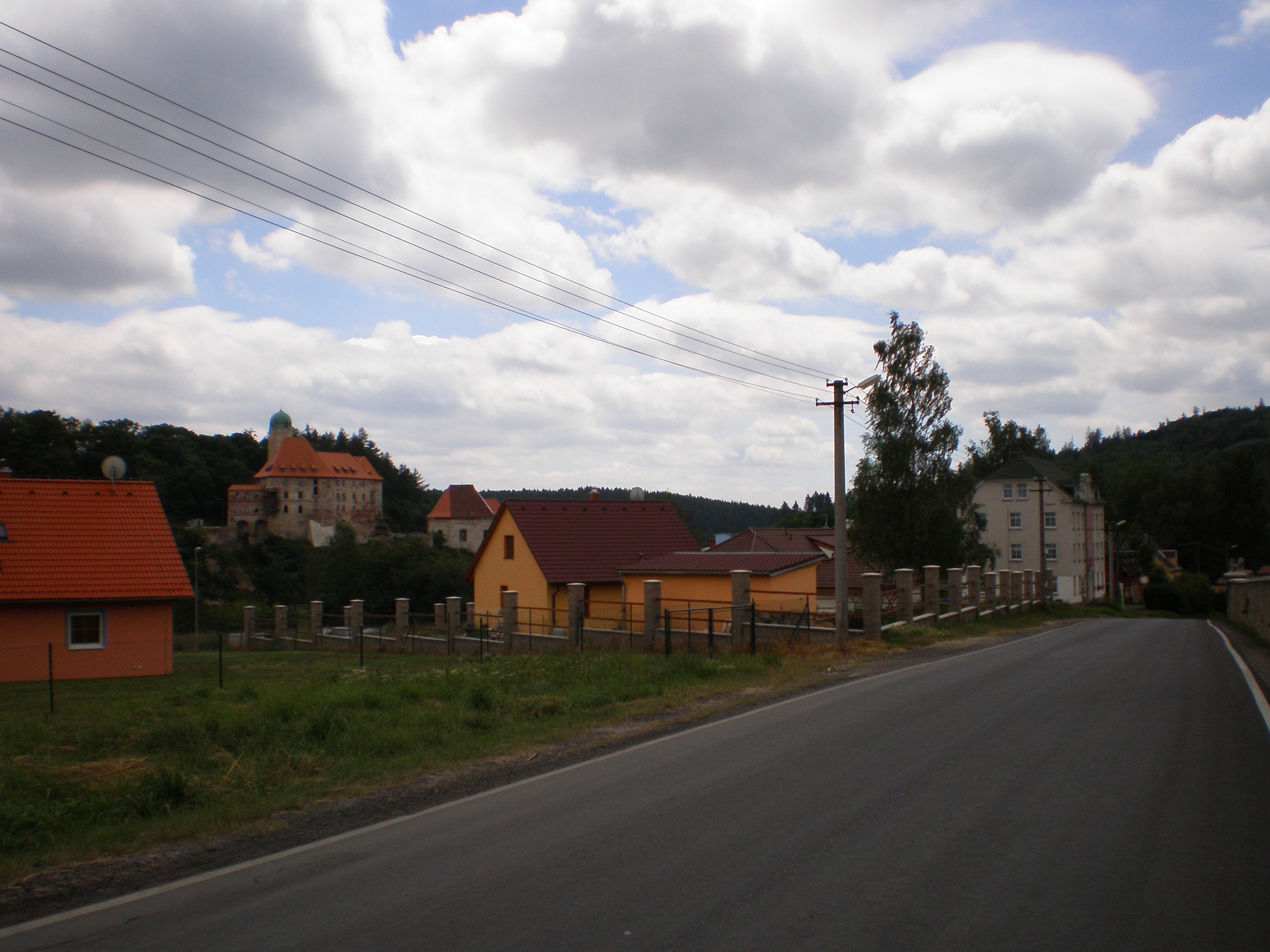 Municipality of Libá, Cheb District, Czech Republic.